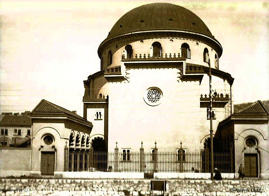 Postcard of Il Kal Grande in Sarajevo between 1932-1941. Illegible script in the bottom left corner where the producer and date should stand suggest only possibility of a date "1939"; in the bottom right corner is visible two word label, with first part distinguishable "Sarajevo" and second part illegible. It was new Sefardi (Kal Grande) temple built in 1932 and demolished by German occupiers in 1941. After the Second World War temple was given by Sarajevo Jewish community to the City and rebuilt and used as "Bosnian Cultural Center" (BKC for short) ever since.